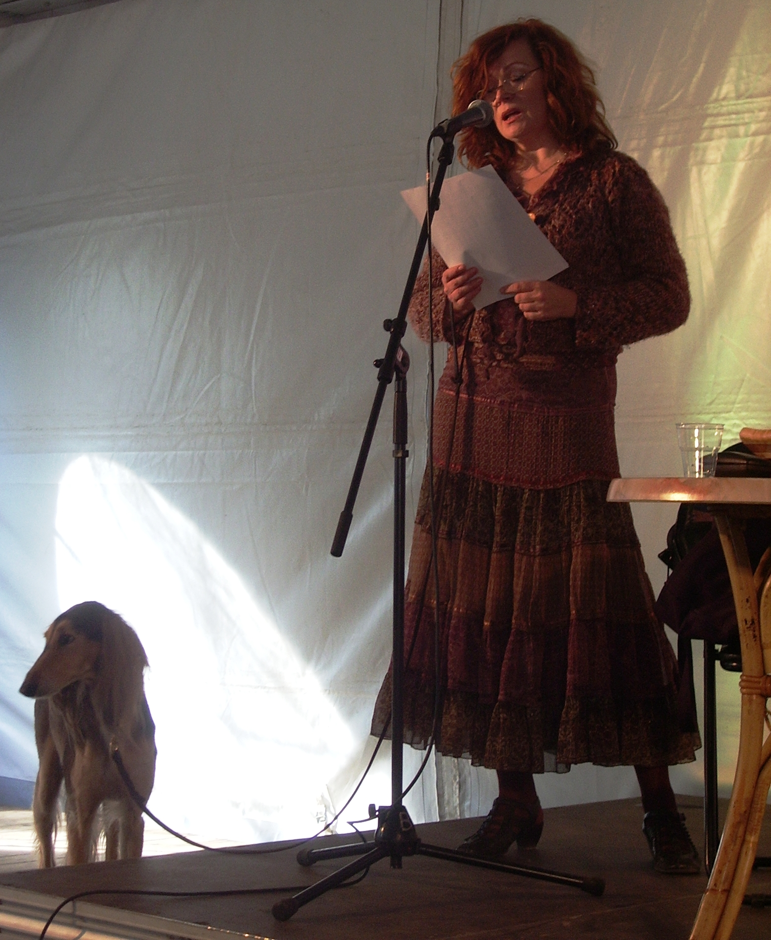 Doris Kareva (born 1958) is Estonian poet. Reading her poems during Tallinn Literature Festival.